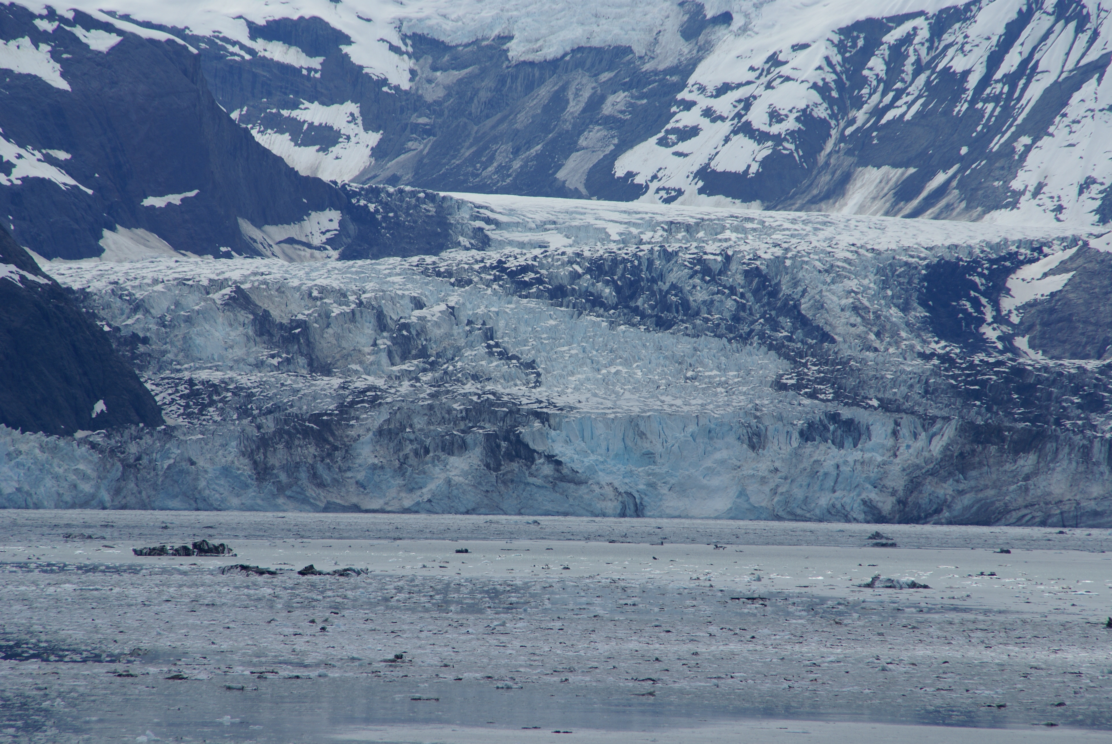 Johns Hopkins Glacier flowing into Glacier Bay, viewed from a distance. (dsc05639)